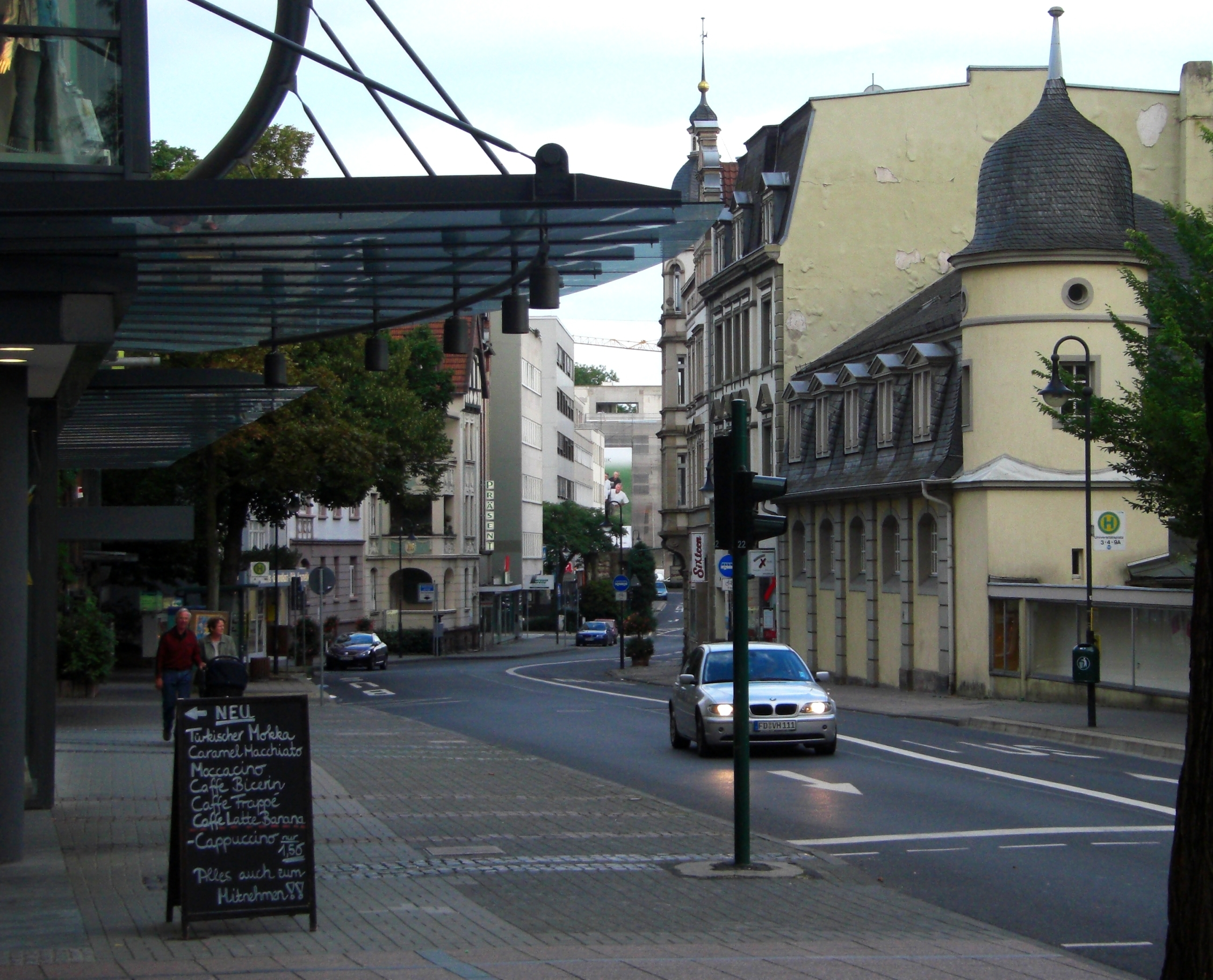 Rabanusstraße in Fulda